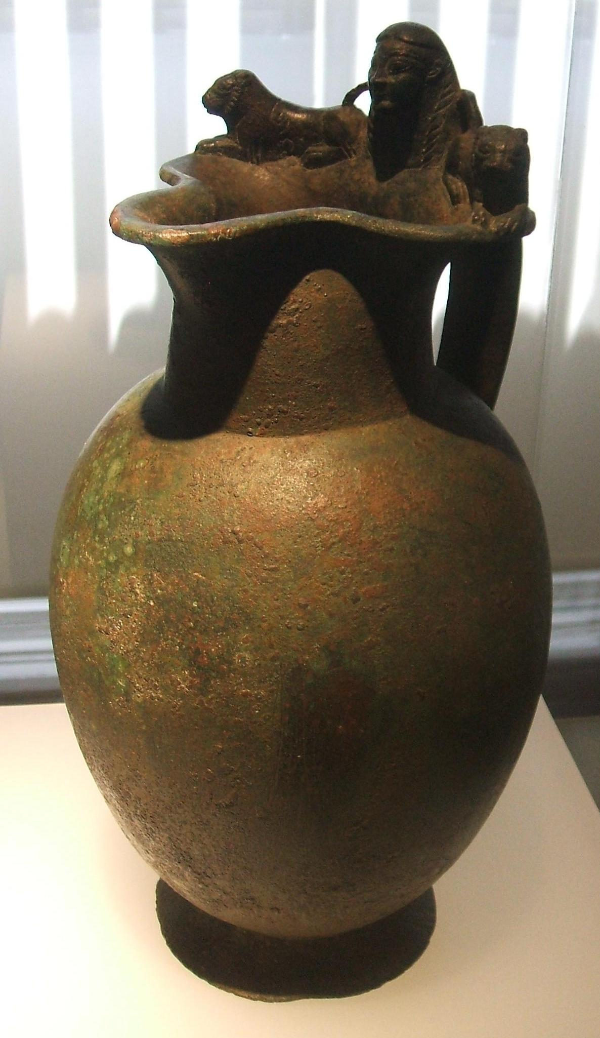 Jarro de Valdegamas ("Jar of Valdegamas"). Tartessian artwork from Don Benito (Badajoz, Spain). Made of bronze at the end of the 6th century BC.